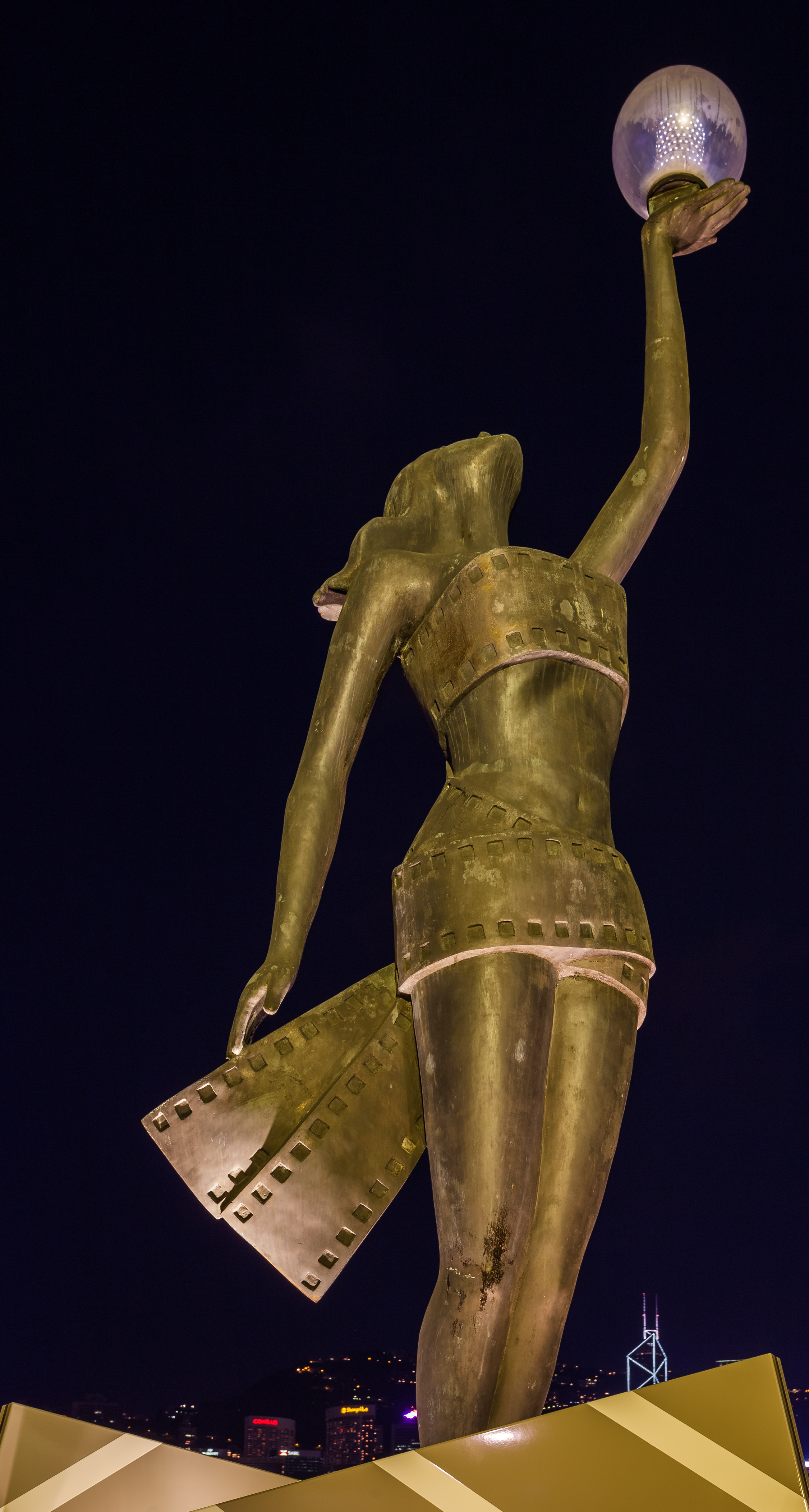 Hong Kong Film Awards Statue, Avenue of Stars, Hong Kong